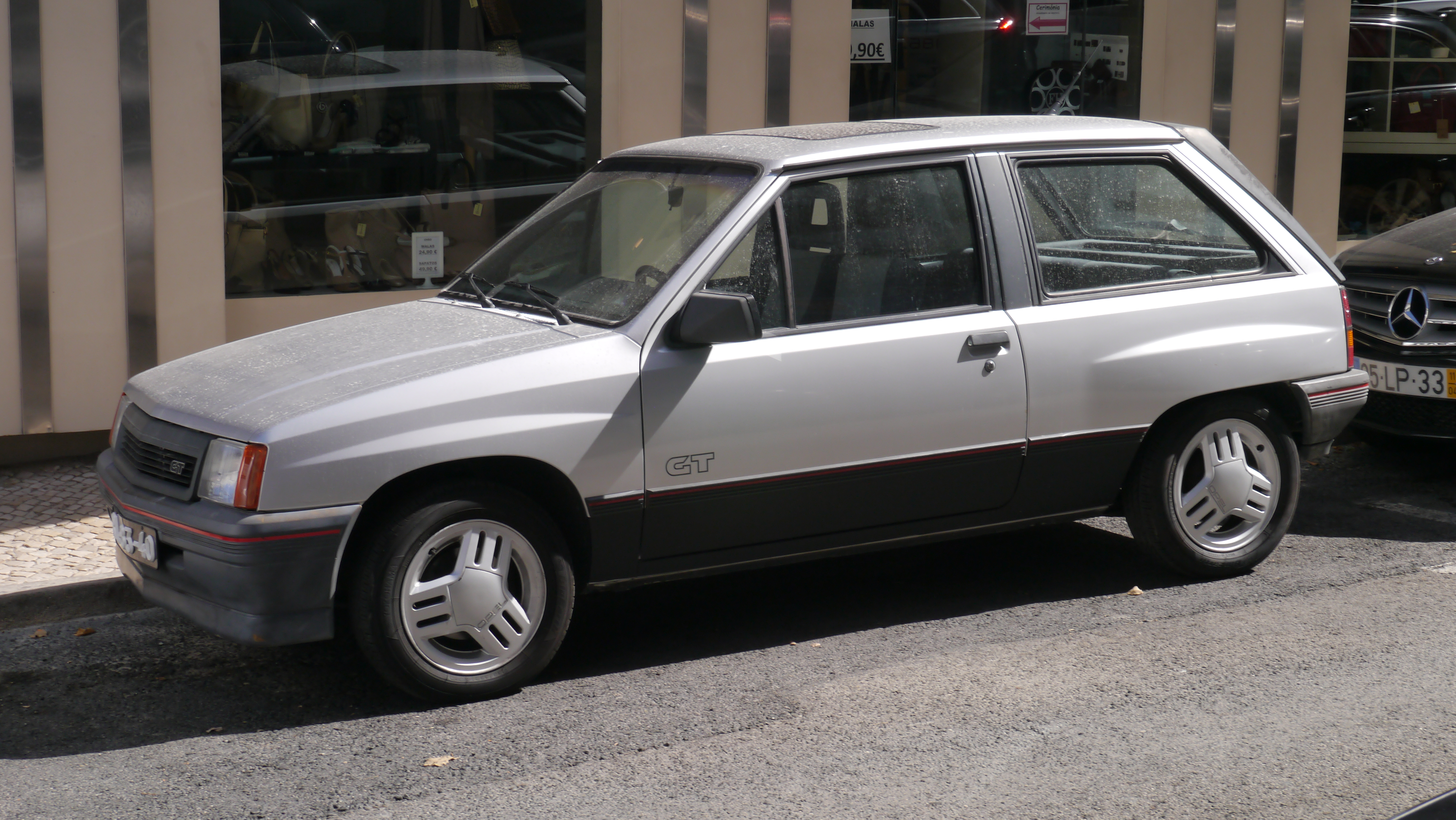 Lisbon, Portugal. I was very happy to see this!! Very clean and tidy!! Just needs a good detail clean.